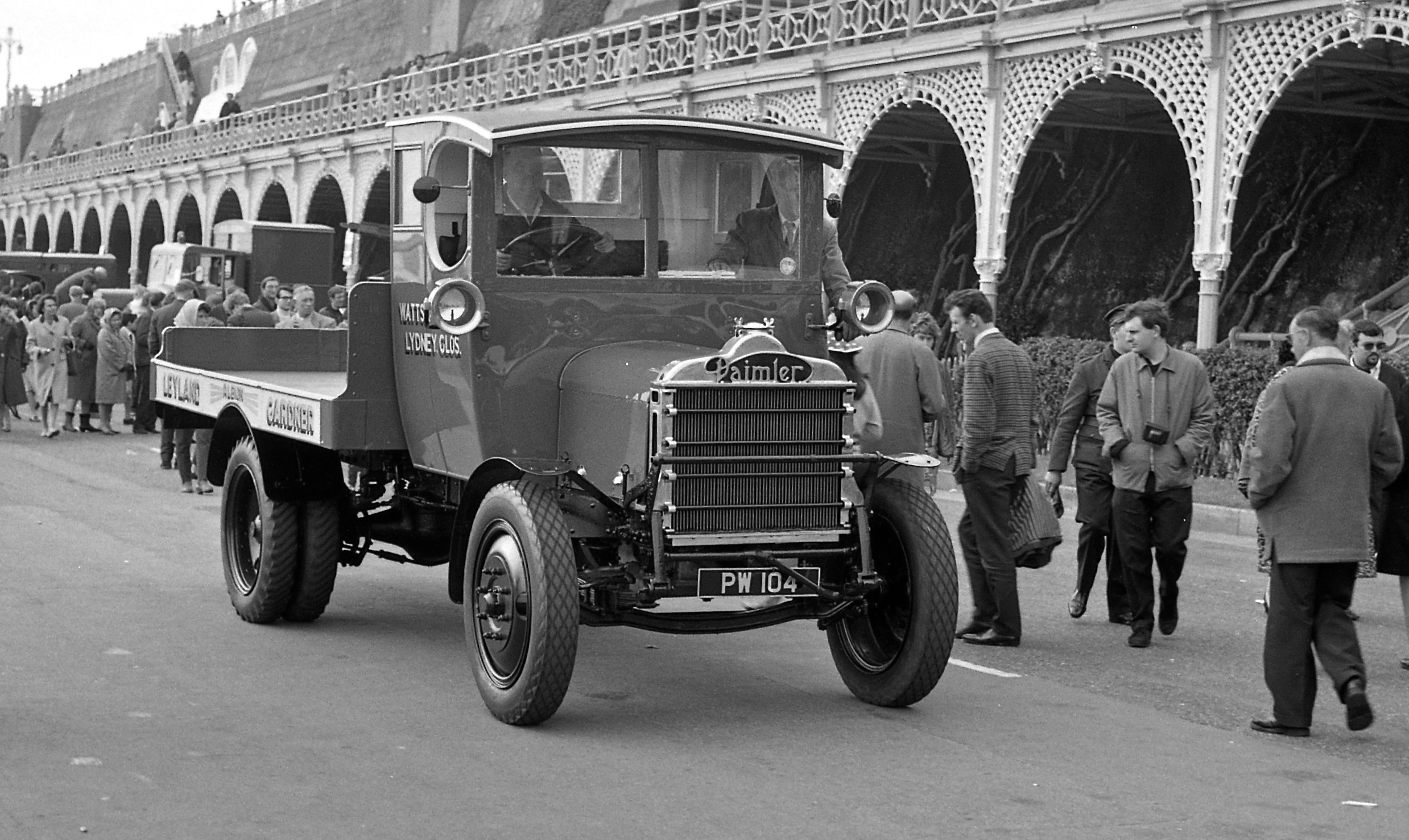 Daimler 3-ton flatbed lorry, 1915 example. This photo was taken on November 17, 2009 in The Lanes, Brighton, England, GB. Additional note from Montagu & Burgess-Wise Daimler Century, 1995 Haynes ISBN 1 85260 494 8, "this 1915 CB-type 40hp 3-tonner after war service was used by a South Wales mineral water bottler".